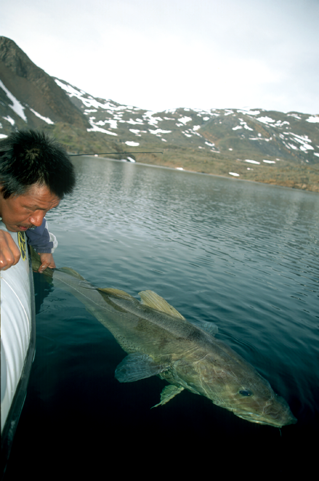 Atlantic cod (Gadus morhua) in a High Arctic Lake in Canada. These cod resemble those of past Atlantic catches. Measuring 47–53 inches (120–135 cm) long and weighing between 44 and 57 pounds (20 and 26 kg), it is easy to see that today's 16–20 inches (40–50 cm) commercially caught cod are less than half this size.